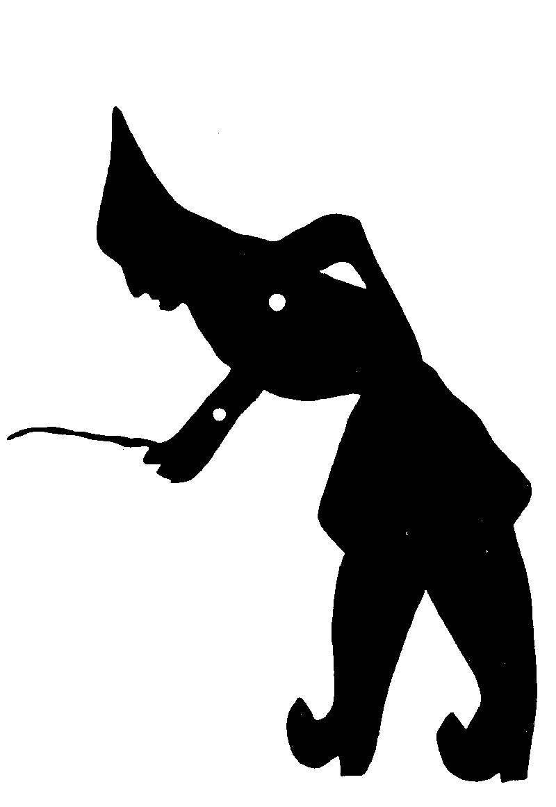 Baba Khwaneb, shadow puppet, Libya